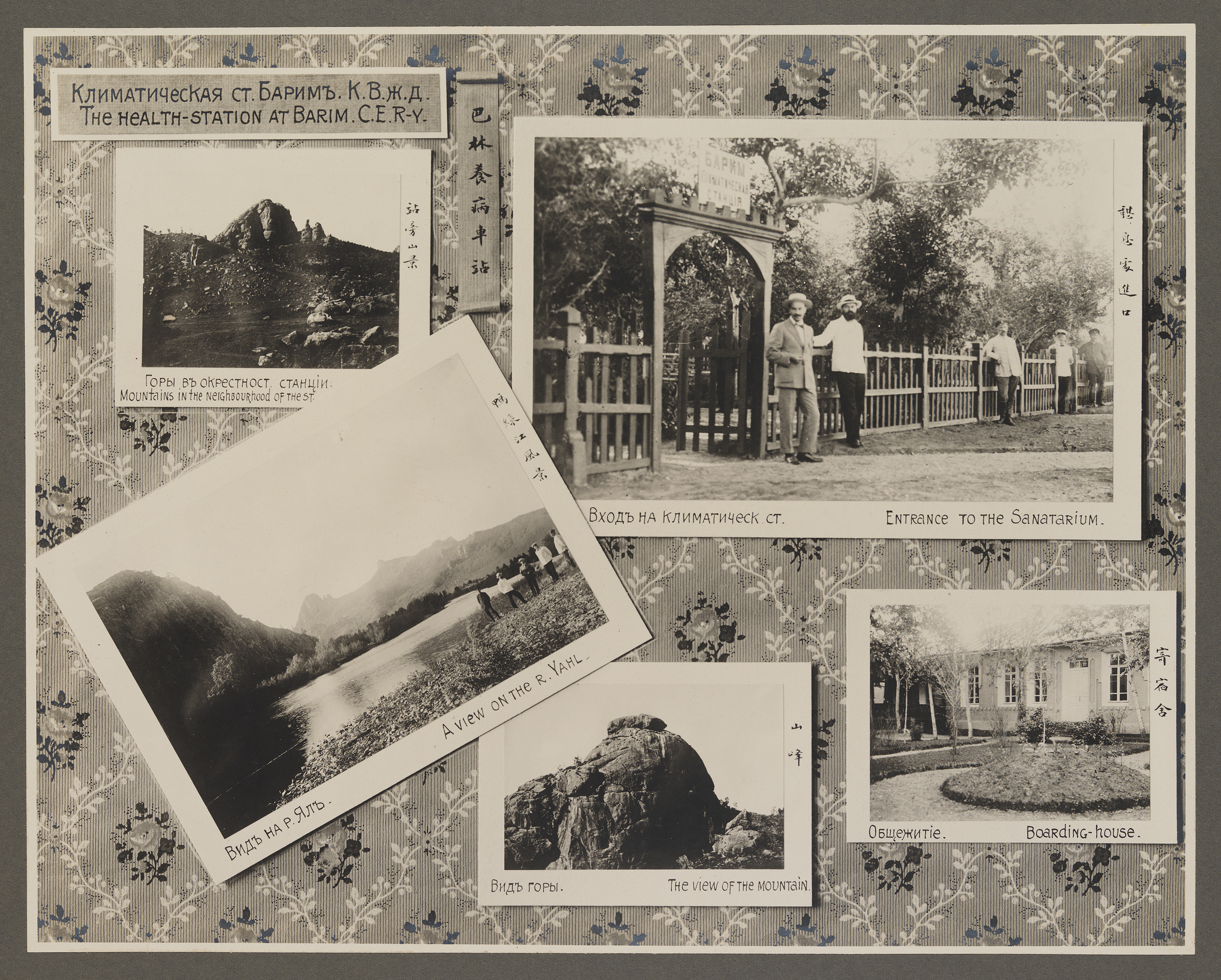 Title: [Chinese Eastern Railway: Views of Accommodations and Vistas at the Barim Health-Station] Creator: Unknown Date: ca. 1903-1919 Place: Yakeshi, Hulunber, Inner Mongolia Autonomous Region, People's Republic of China Part Of: Description: This photograph is part of an album, Views of the Chinese Eastern Railway, which contains 42 photographic prints. The Chinese Eastern Railway, also known as the Trans-Manchurian line of the Trans-Siberian Railway, linked Chita to Vladivostok. Physical Description: 1 photographic print: gelatin silver, part of 1 volume (42 gelatin silver prints); 21 x 27 cm on 27 x 38 cm File: ag1987_0662x_29_opt.jpg Rights: Please cite DeGolyer Library, Southern Methodist University when using this file. A high-resolution version of this file may be obtained for a fee. For details see the web page. For other information, . For more information, View the full album: View the